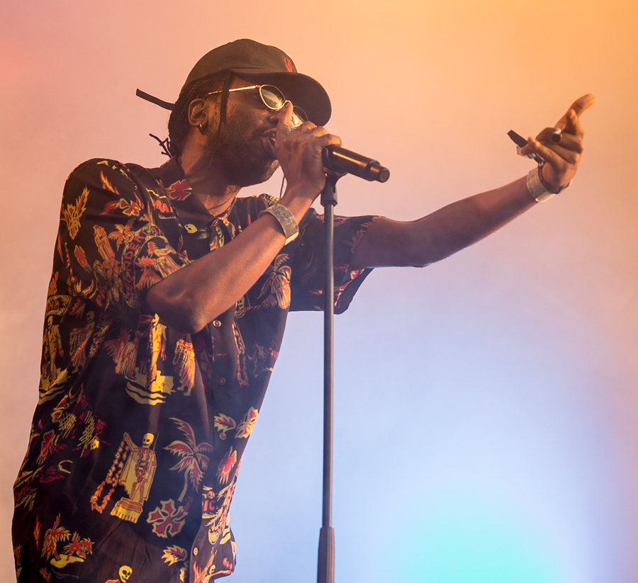 Arif at the minor stage during Stavernfestivalen in Stavern on 08. July 2016. Lineup:Arif Salum (vocal)